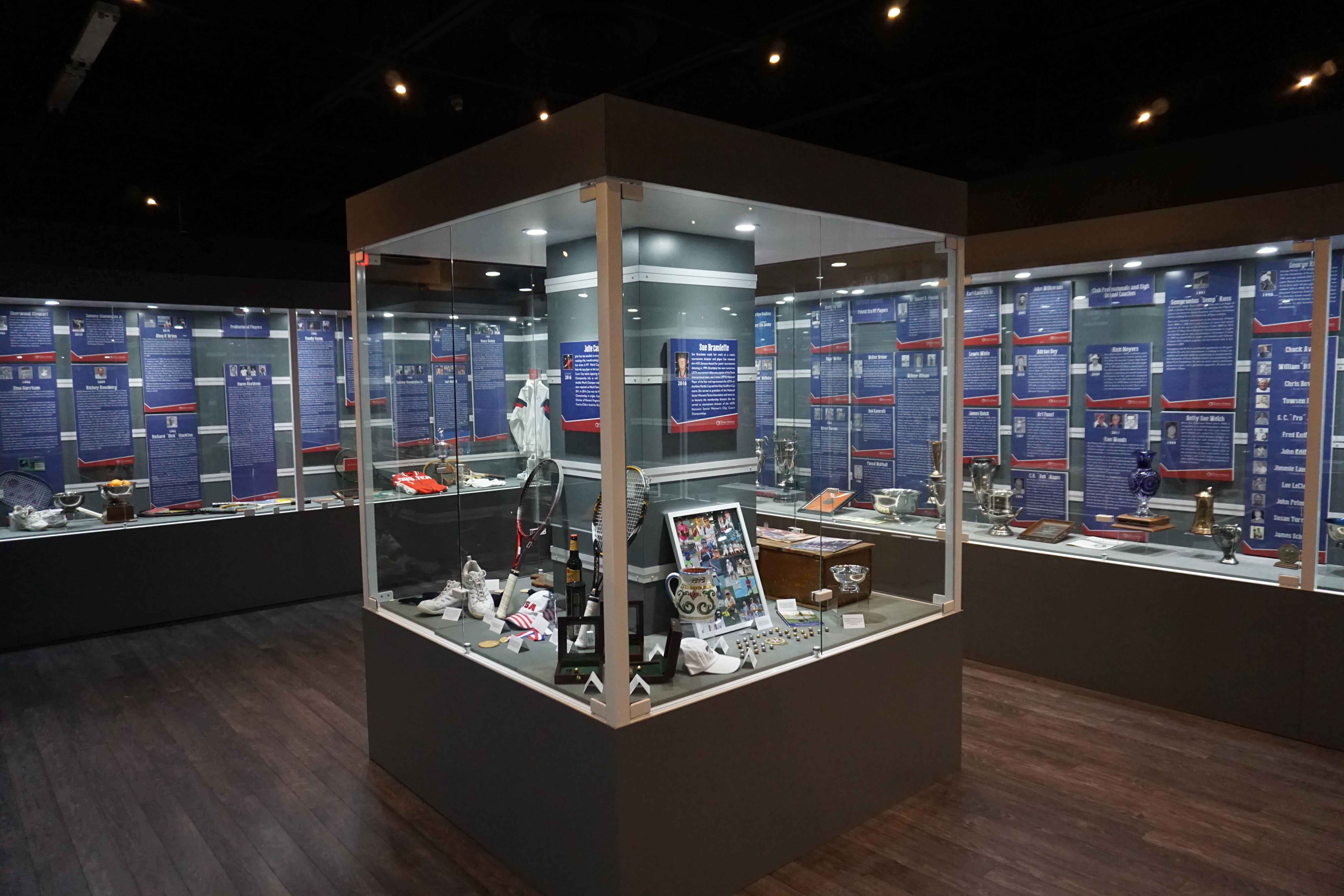 The Texas Tennis Museum and Hall of Fame at the Texas Sports Hall of Fame in Waco, Texas (United States).